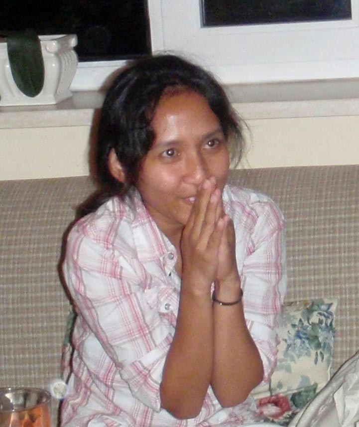 Thai greeting